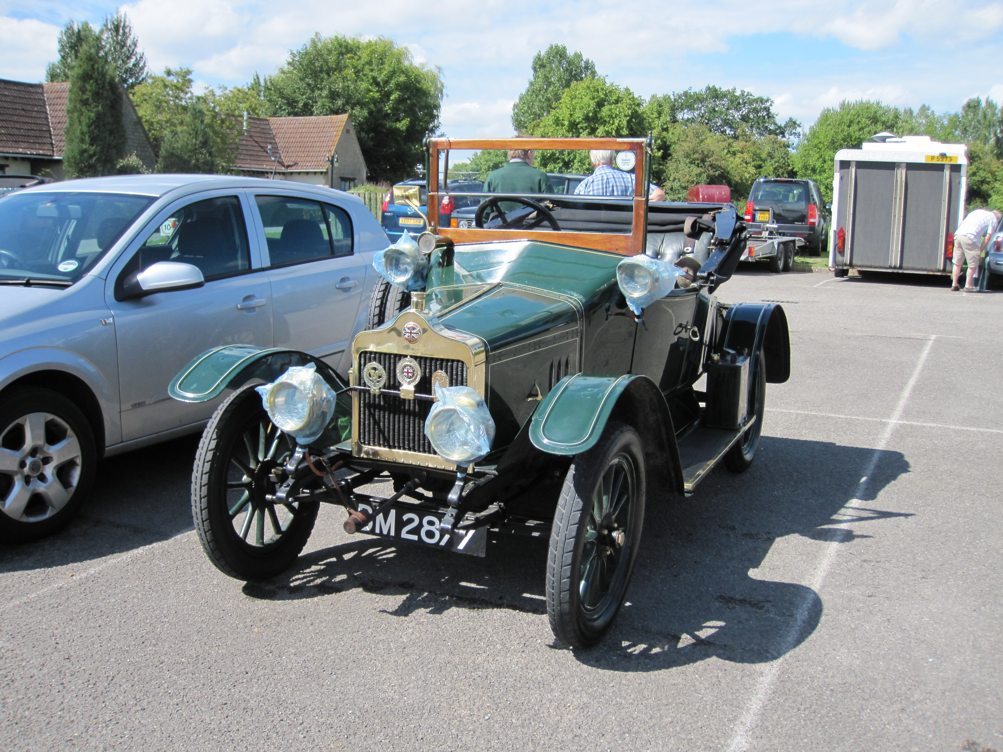 1913 Standard Model S 9.5HP Rhyl 2-seater tourer VCC Cricklade source of information